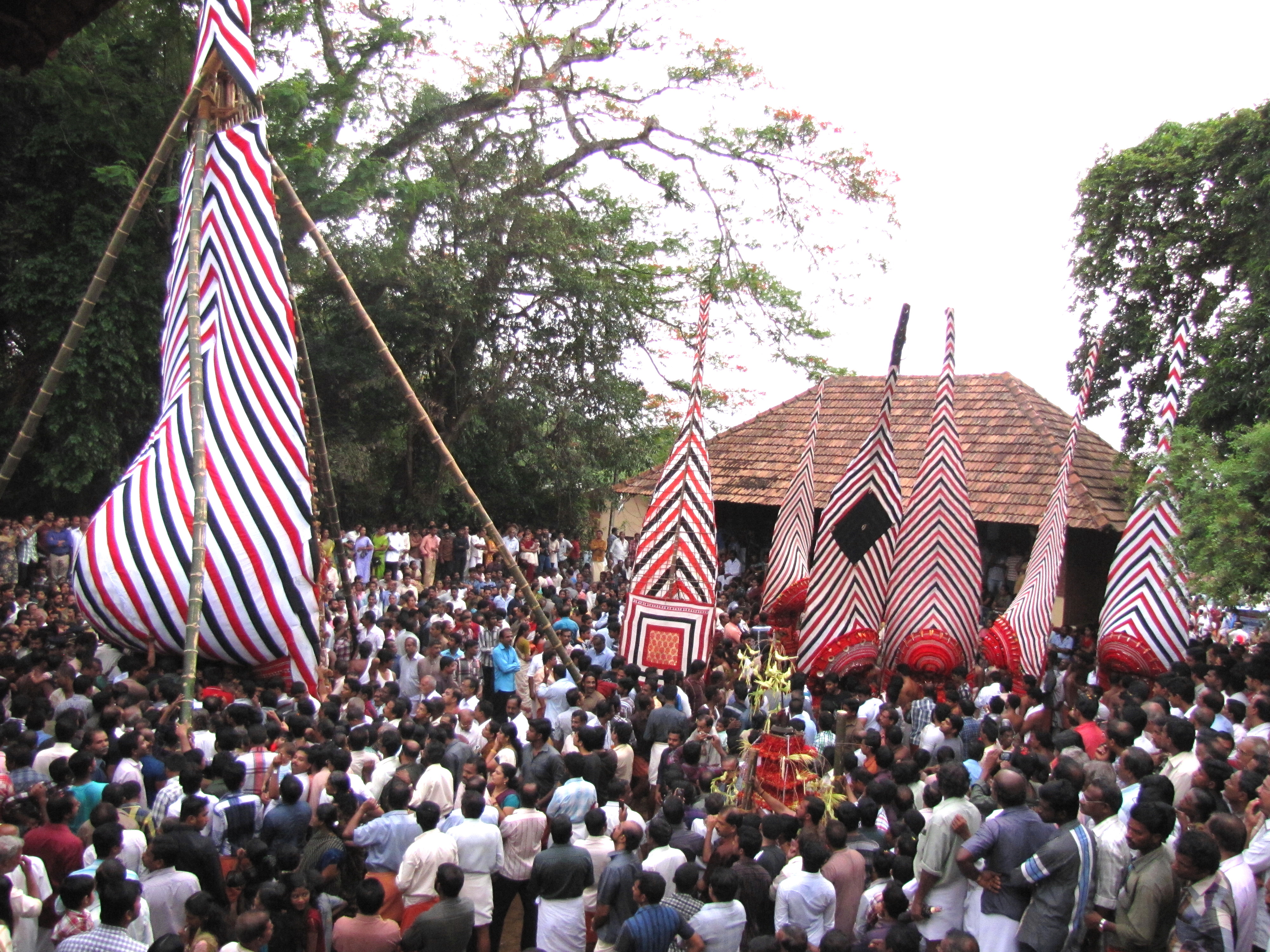 Kalarivathukkal Bhagavathi and her children